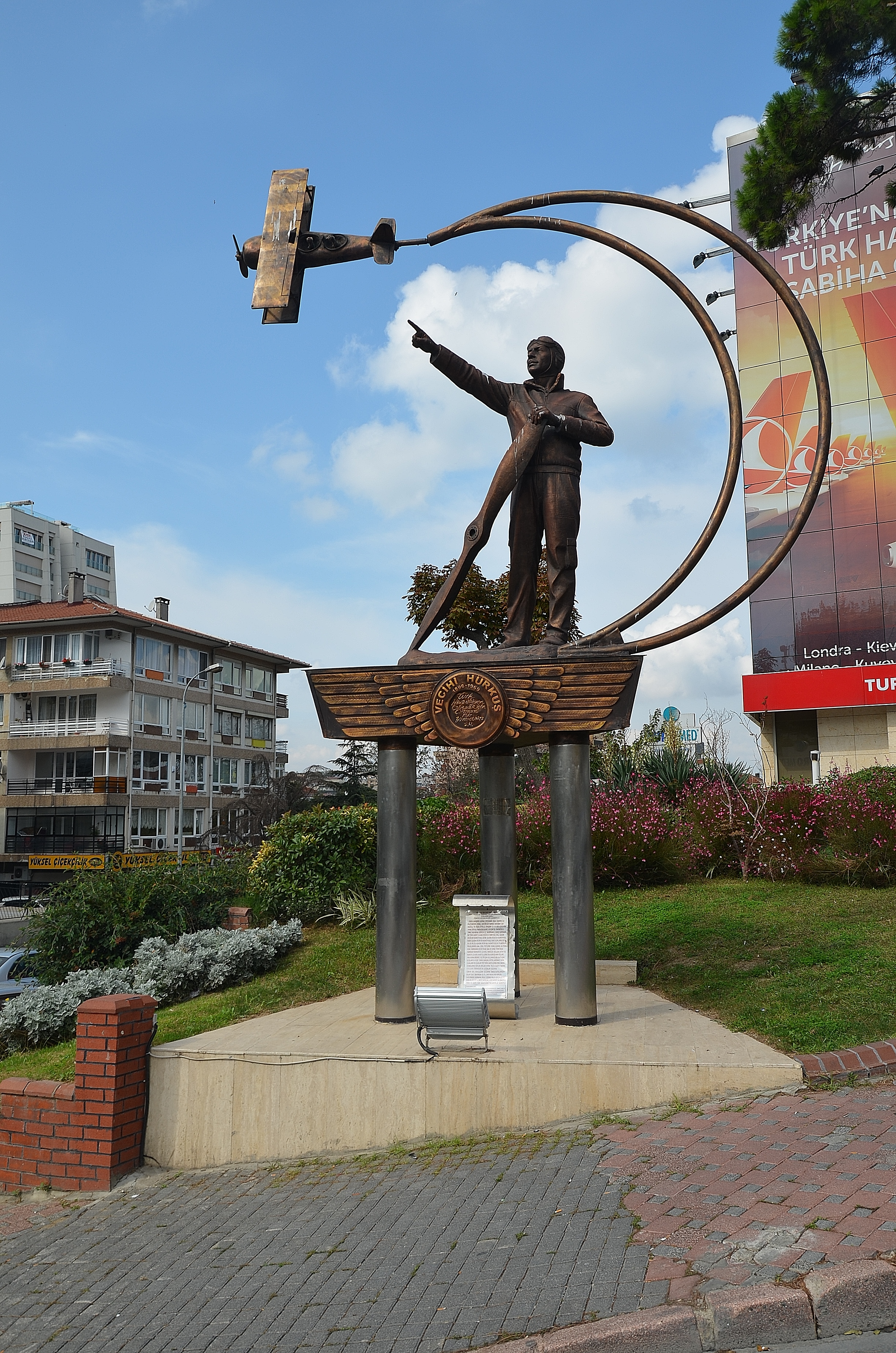 Monument to Vecihi Hürkuş, first civilian aviator and first aircraft manufacturer in Turkey, in Kızıltoprak, Kadıköy, Istanbul, where he had an aviation school. Notice the homage to Sabiha Gökçen at the wall of the building behind.